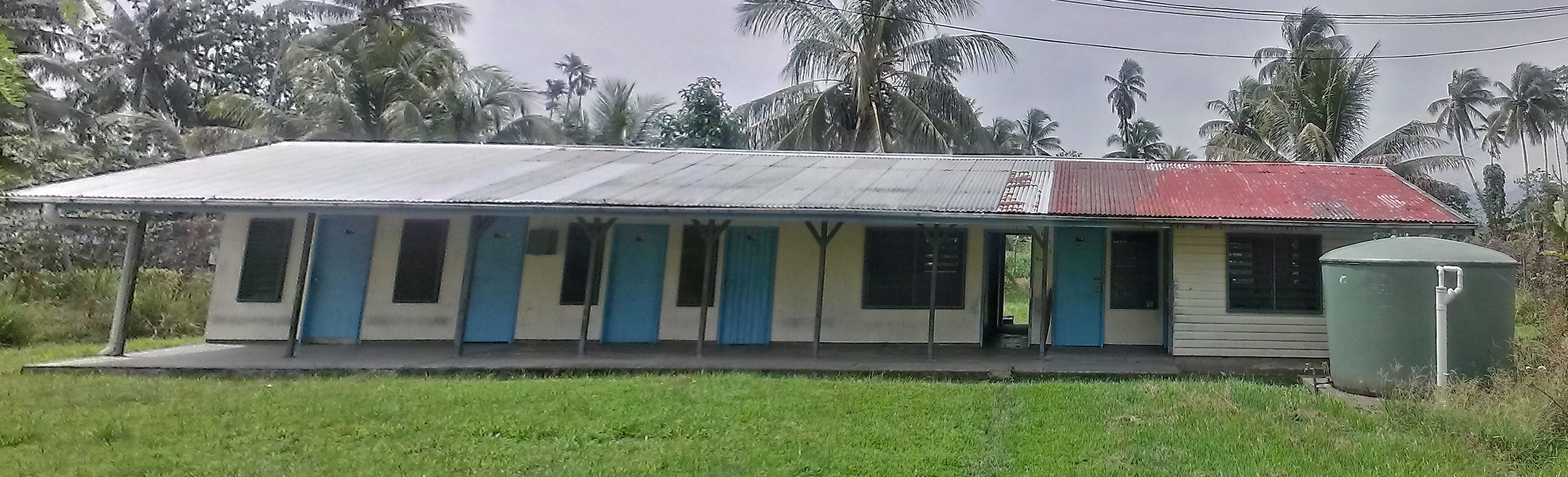 Photo of the visitors barracks at Malahang Mission Station, Lae, Morobe Province. Photo taken 30 January 2014